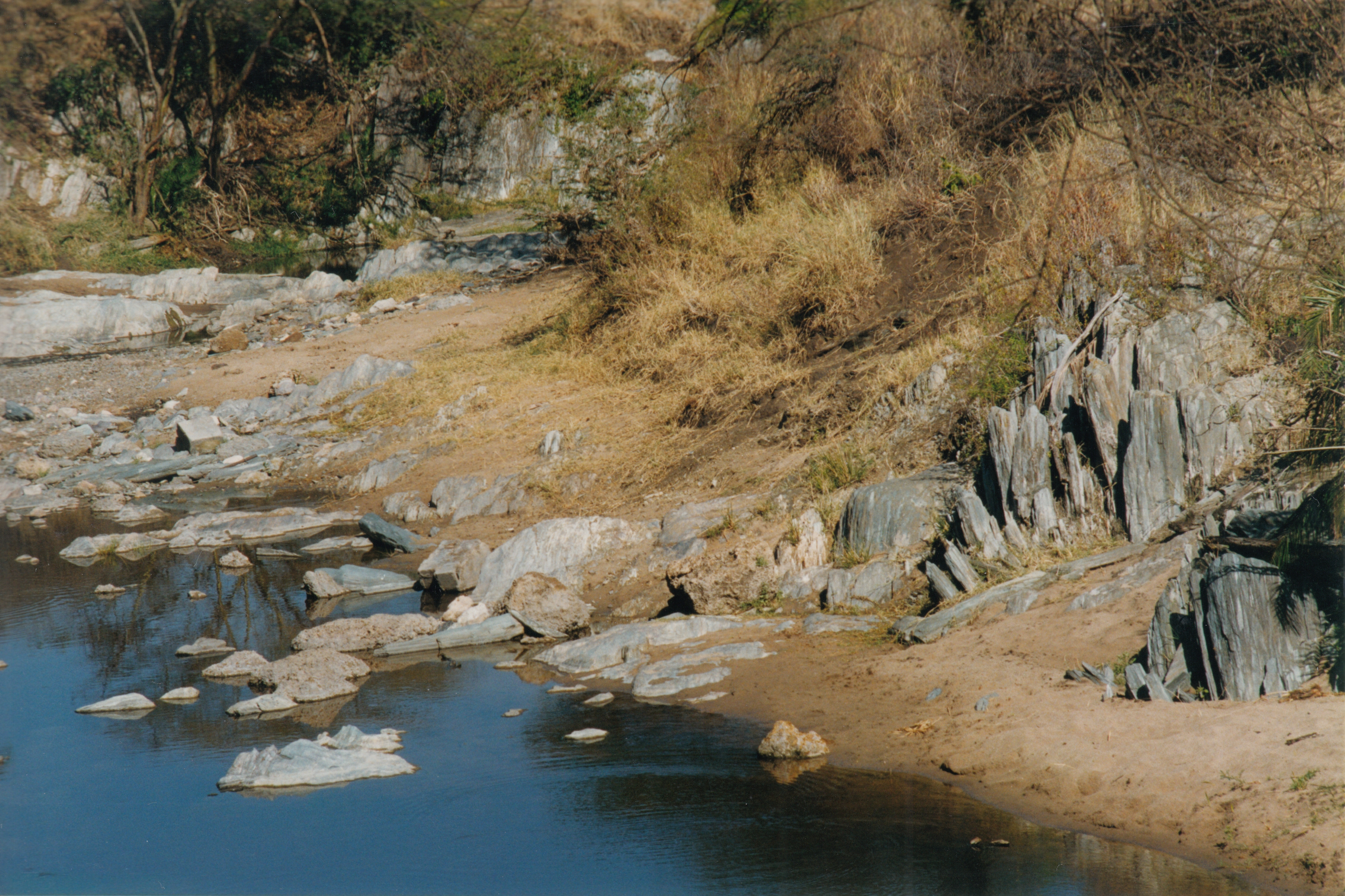 Outcrop of Kilimafedha greenstone belt, Orangi River, Serengeti NP, Tanzania